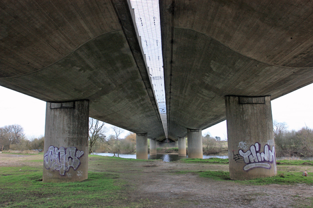 The A64 crossing the river Ouse Clearly a dual carriageway!